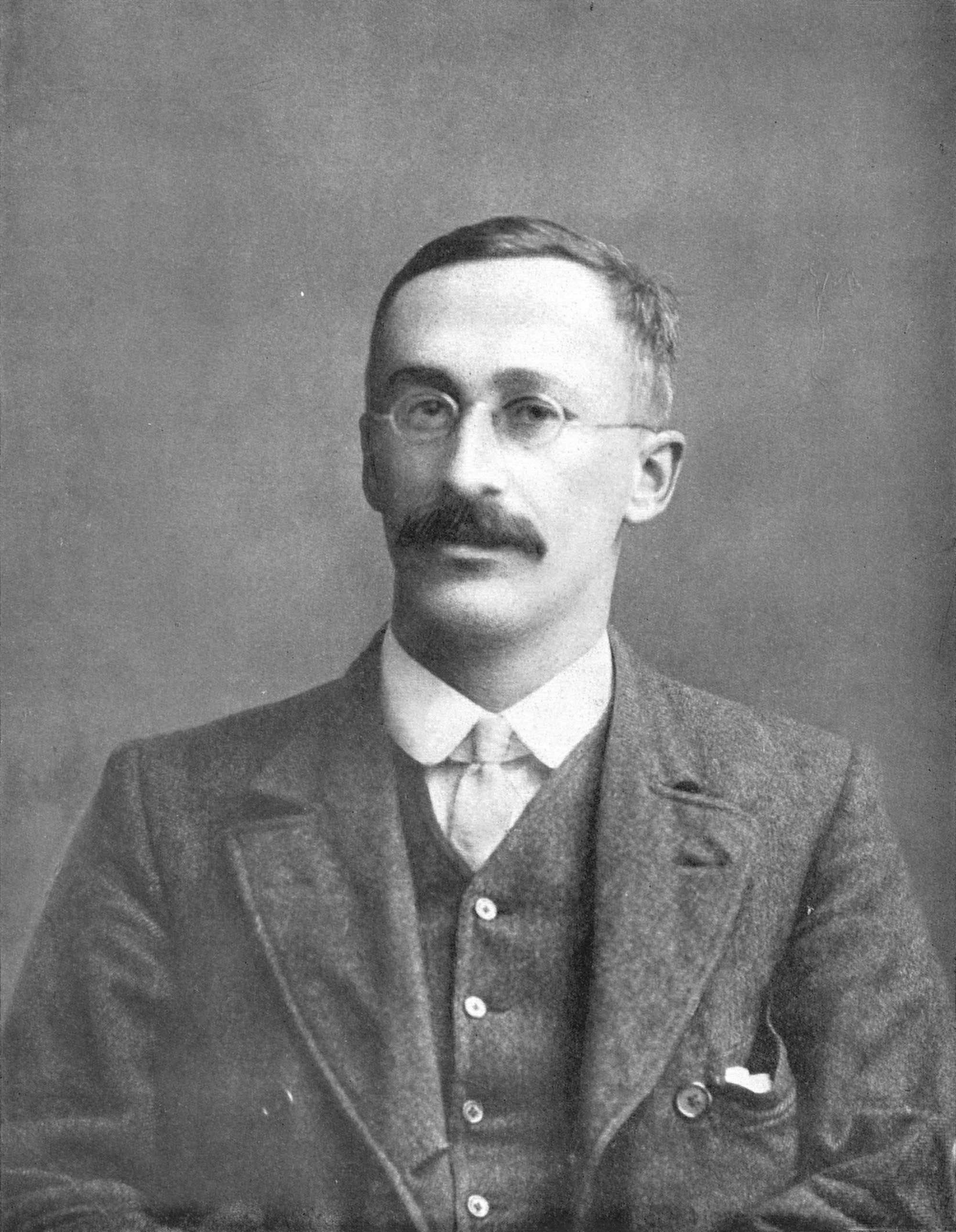 British statistician William Sealy Gosset, known as "Student", taken in 1908